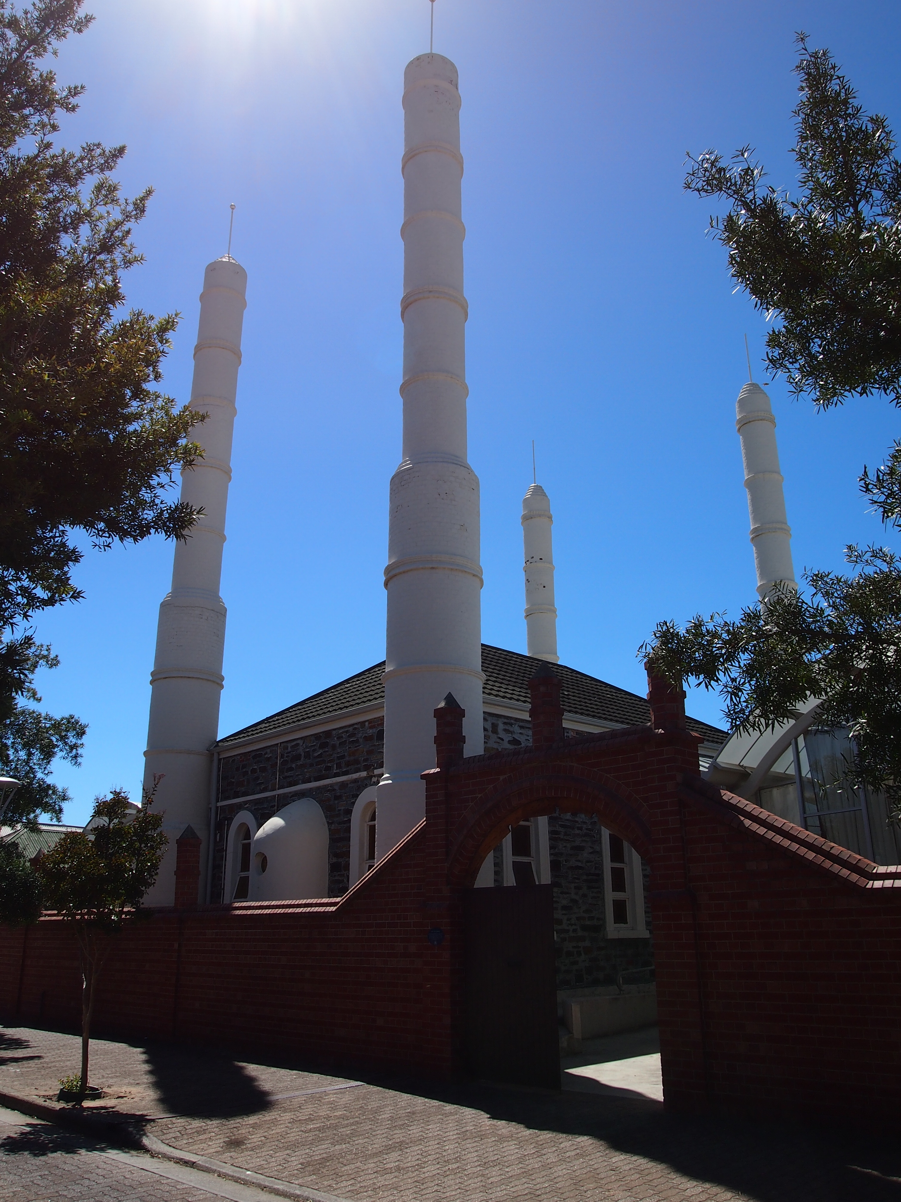 The Adelaide Mosque in Little Gilbert Street Original filename = P3071324.JPG